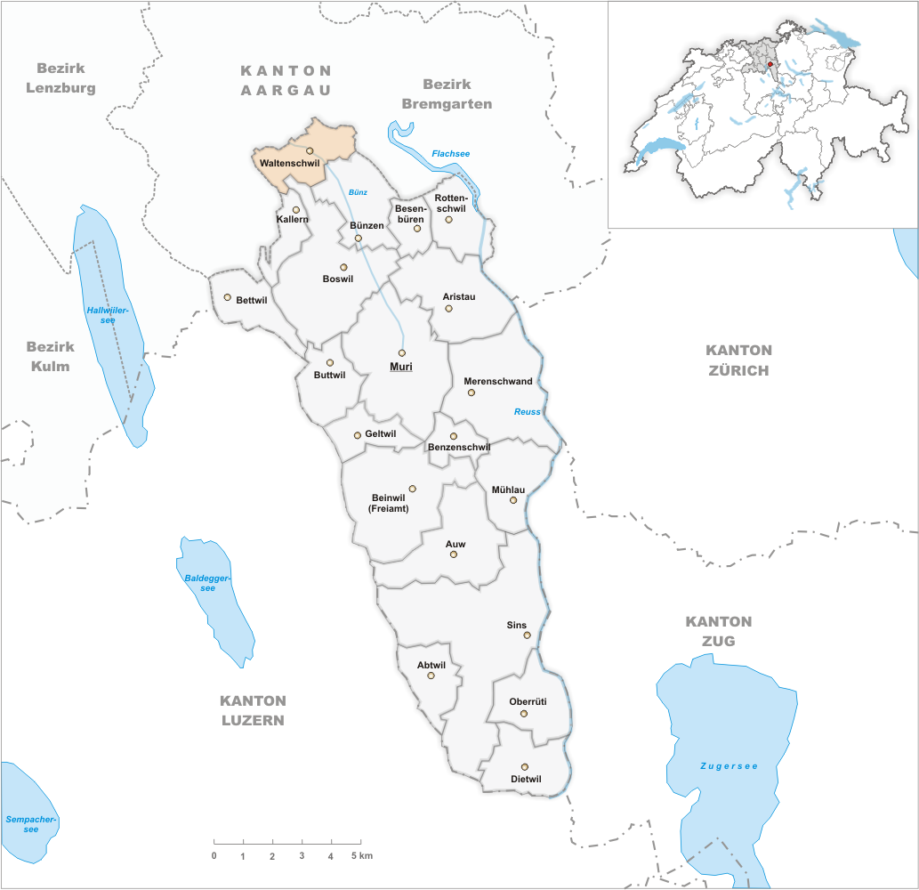 Municipality Waltenschwil